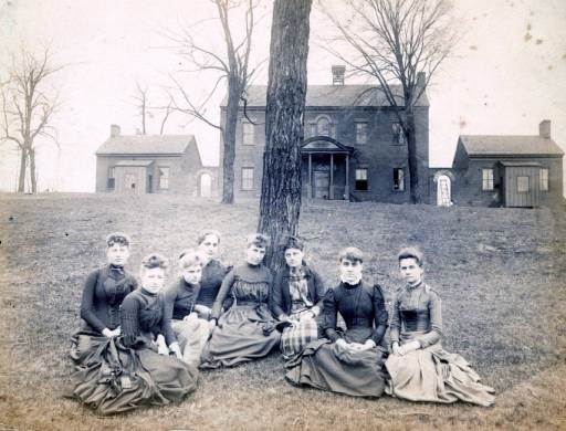 The East Tennessee Female Institute in Knoxville, Tennessee, United States.